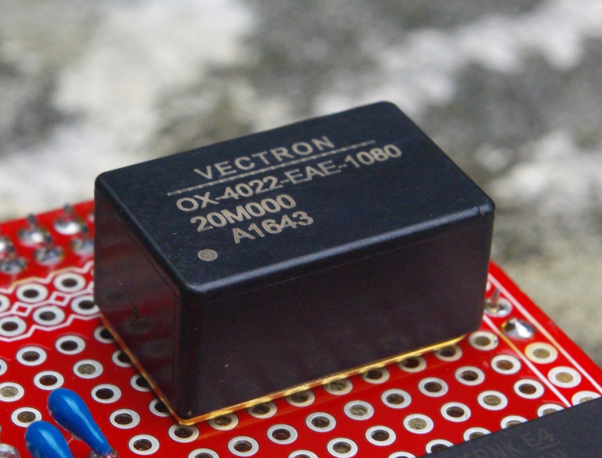 Vectron OX-402 series 20 MHz oven controlled crystal oscillator made in 2016. Part number OX-4022-EAE-1080 20M00. Mounted in 0.1 inch perfboard.